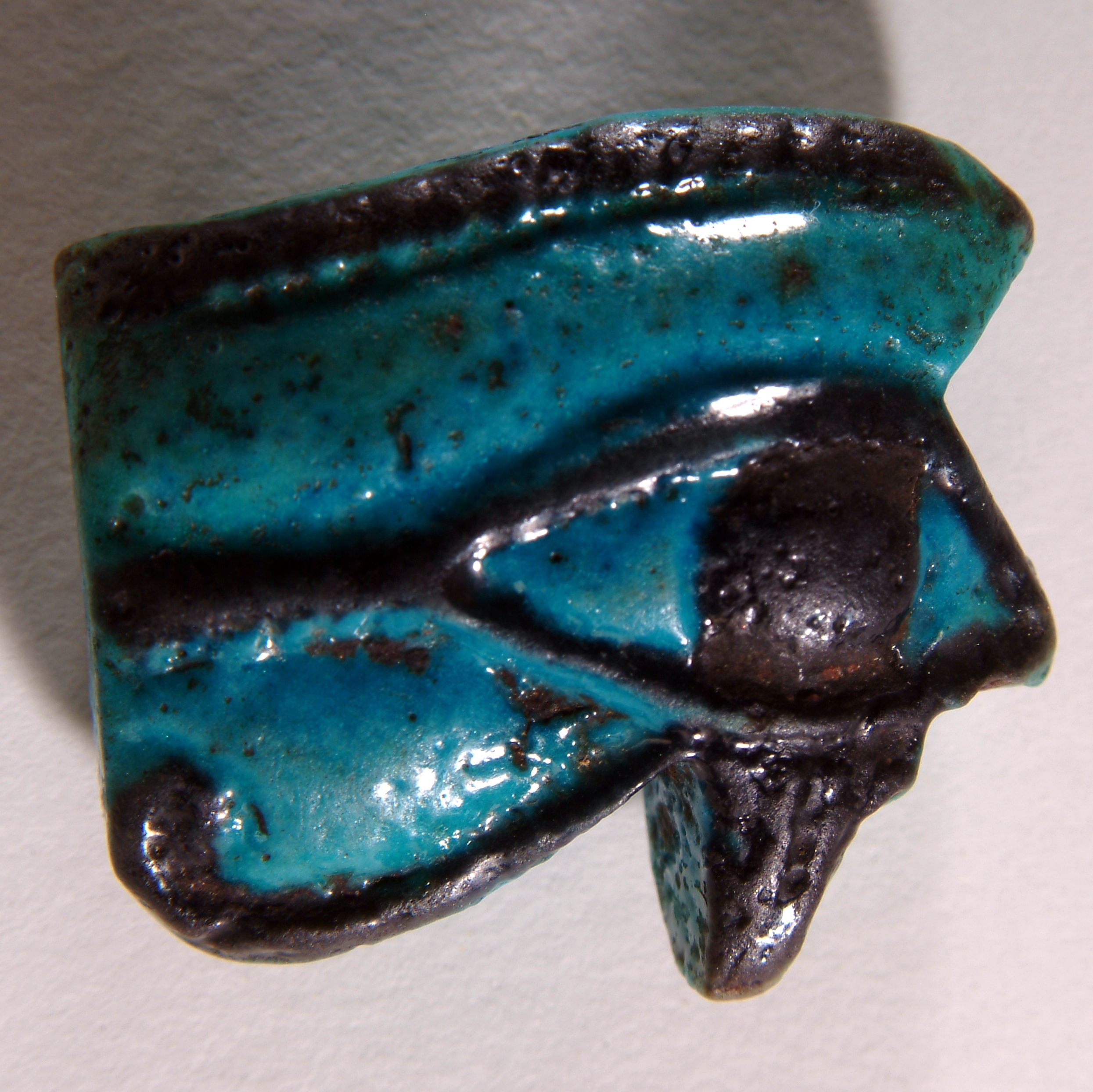 Blue Faience Wadjet amulet. Sacred eye outlined in black.